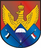 Internal coat of arms of the Bundeswehr (Armed Forces of the Federal Republic of Germany). → Remarks on naming and categorization scheme